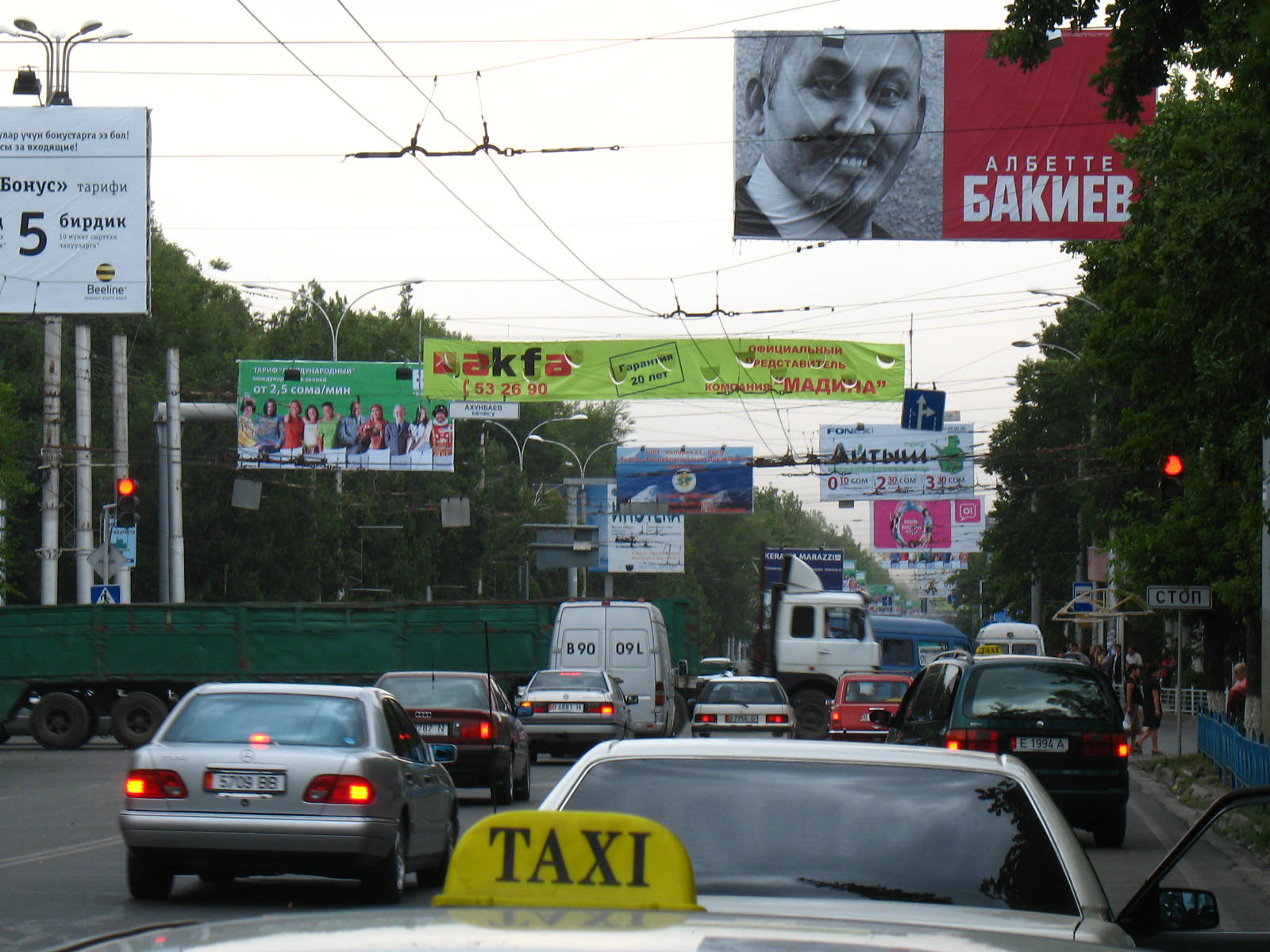 A billboard (at the corner of Akhunbaeva and Prospekt Mira) advertising President Bakiev for the 2009 presidential election in Kyrgyzstan. The sign reads "Albette Bakiev" ("Bakiev of course"), and the person depicted is supposed to represent a subset of his constituency. Кыргызча: Бишкектин Ахунбаев көчөсү жана Тынчтык проспектинин кесилишиндеги 2009 жылдын шайлоосуна Бакиевди президенттикке талап кылуучу реклама. Рекламада "Албетте Бакиев" деп жазылат, жана көрсөтүлгөн чал Бакиевтин шайлоочуларынын бир тобунун түрүн белгиленип жатат.